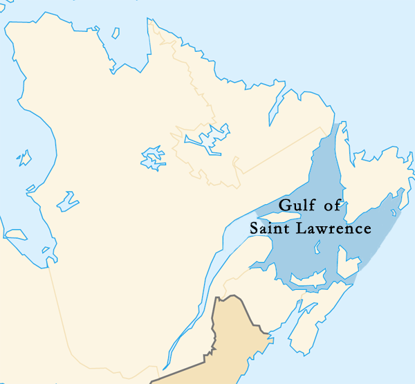 Map Gulf of Saint Lawrence, Quebec